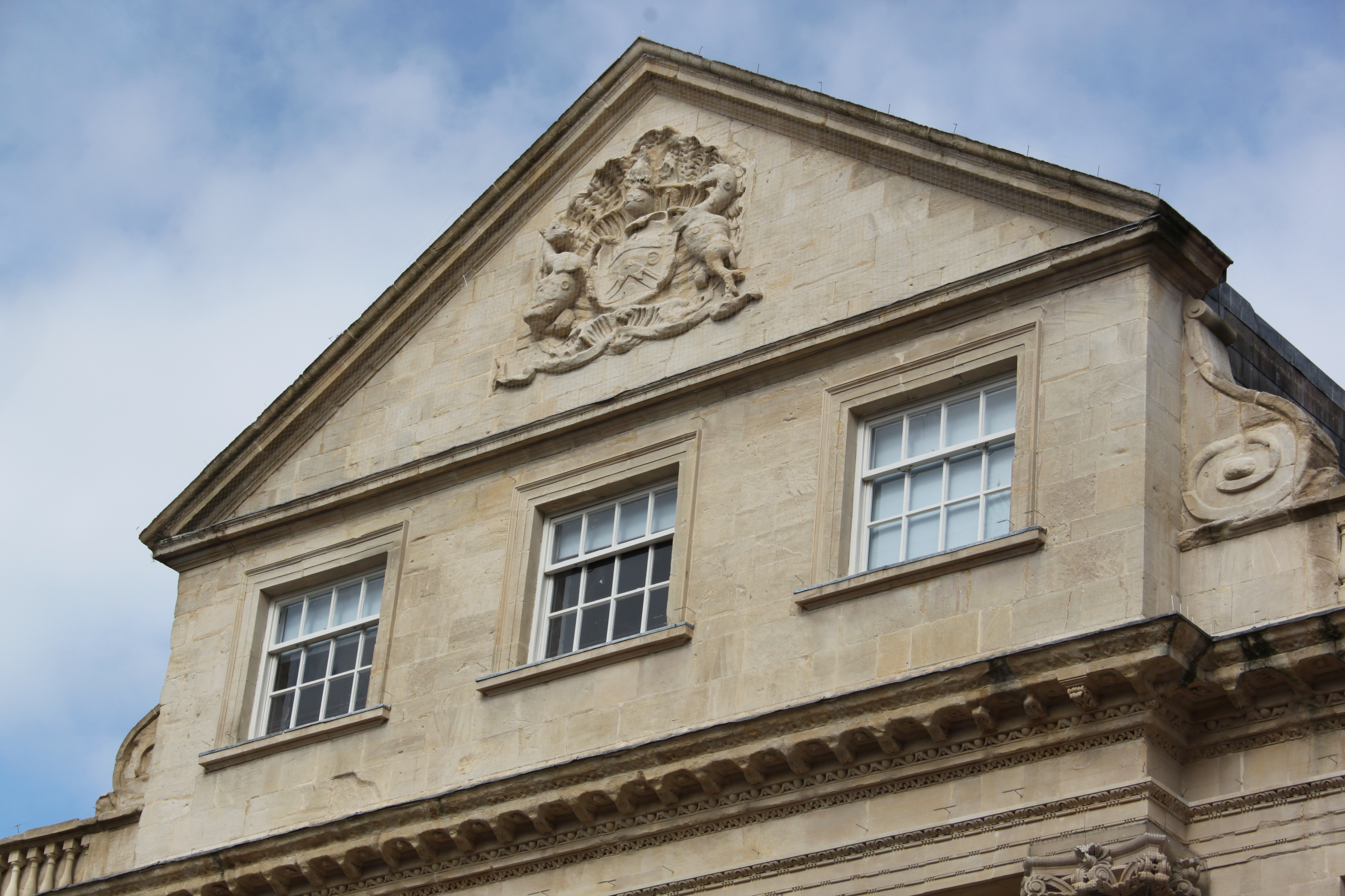 Bristol Old Vic Wikidata has entry Q917960 with data related to this item.